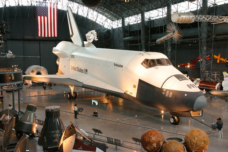 Space Shuttle Enterprise in Steven F. Udvar-Hazy Center